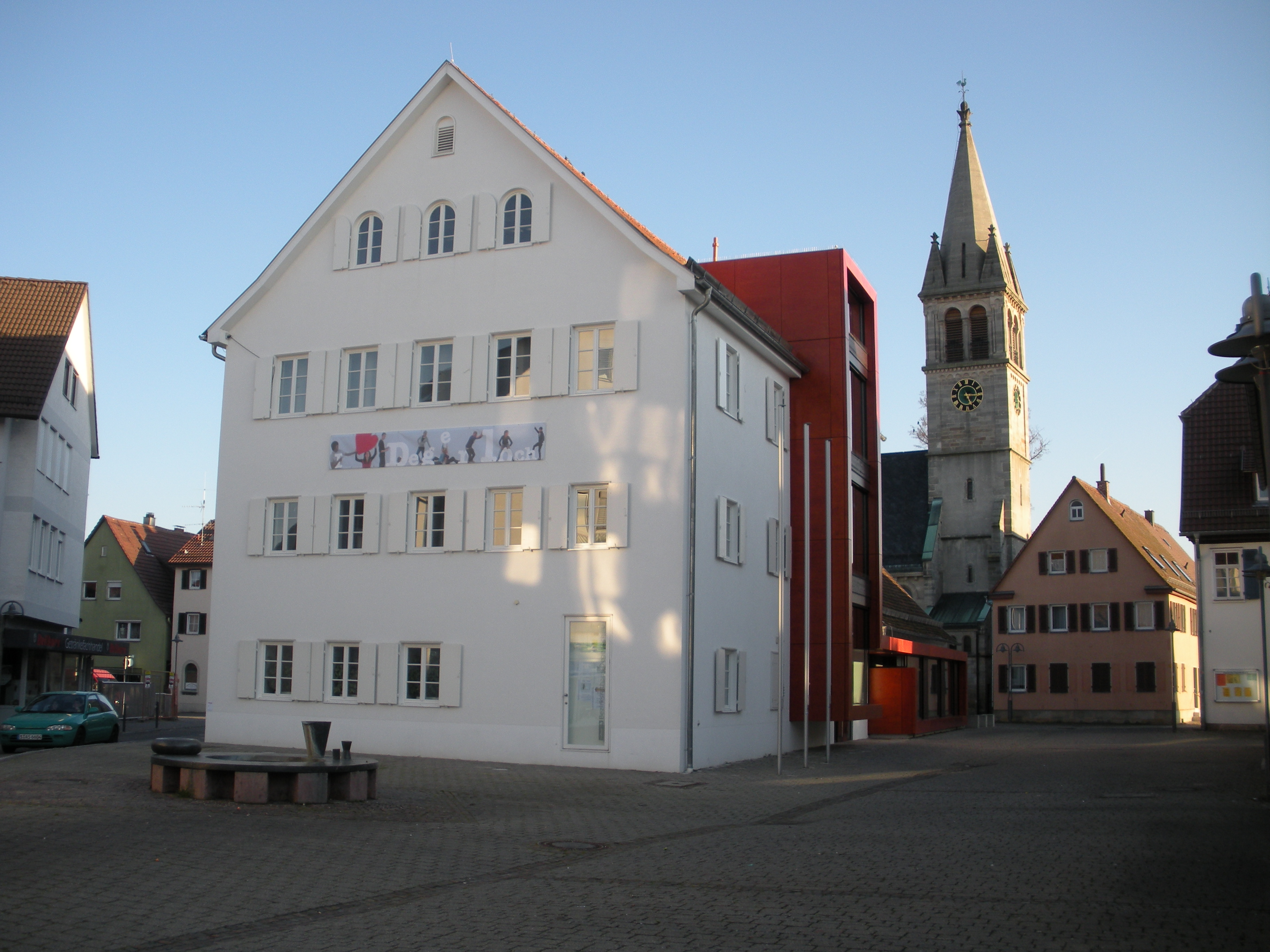 Town Hall in Stuttgart-Degerloch